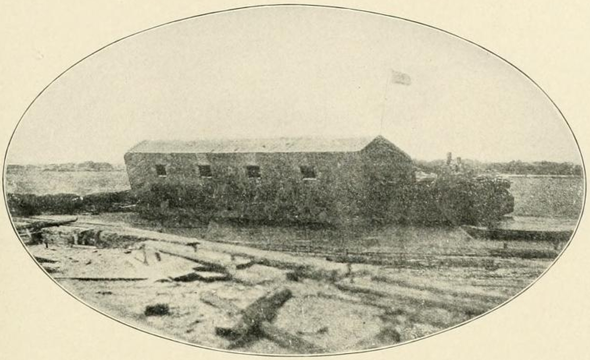 Famous Floating Battery of Charleston Harbor which fired upon Fort Sumter